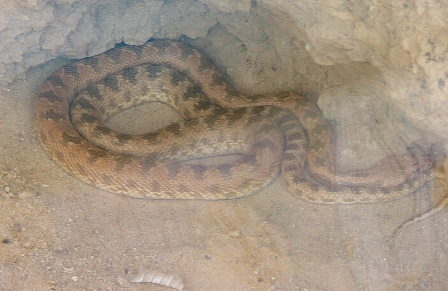 A Clifford's Snake (Spalerosophis diadema cliffordi) in Israel.